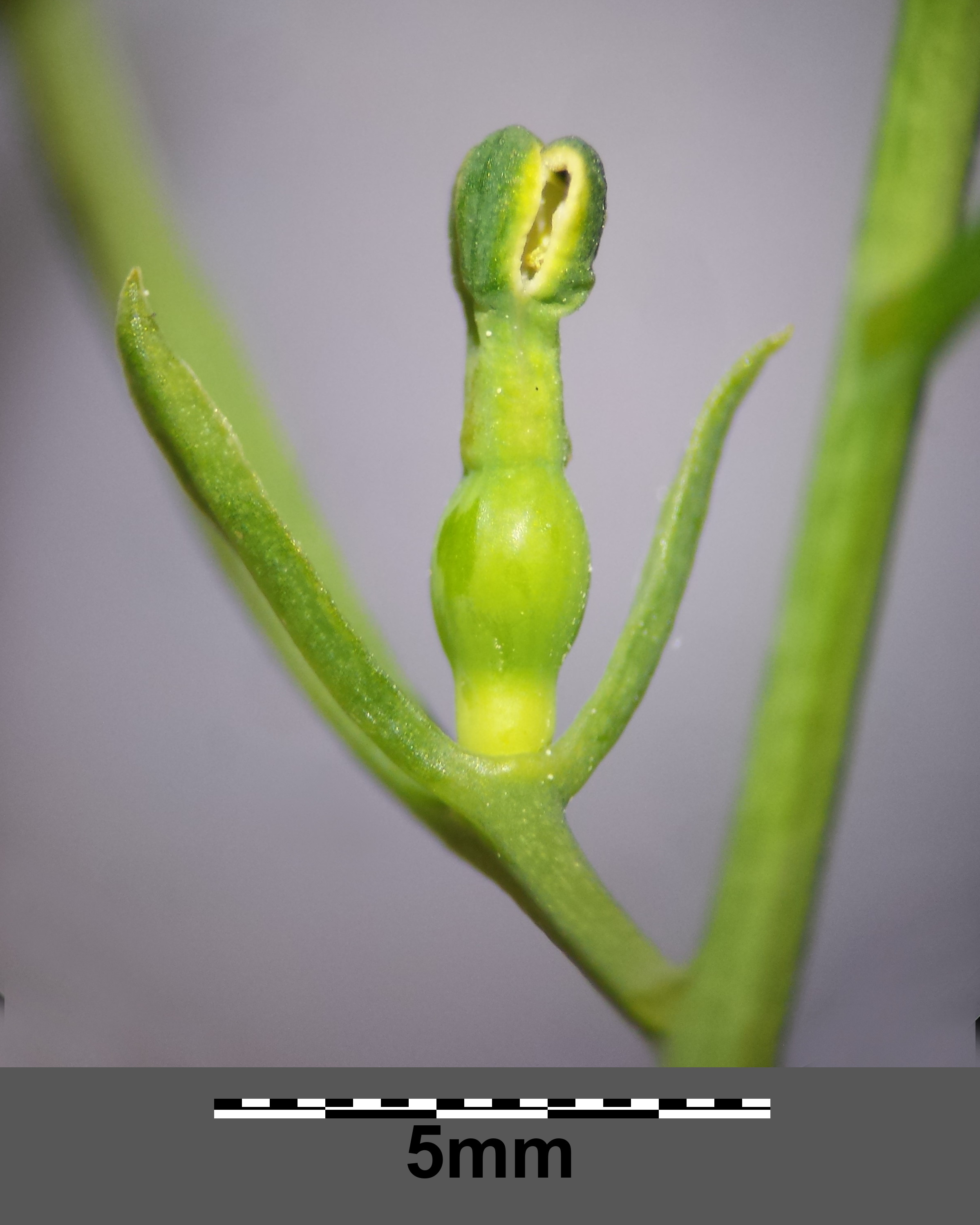 Fruit with elaiosome Taxonym: Thesium alpinum ss Fischer et al. EfÖLS 2008 ISBN 978-3-85474-187-9 Location: near Puchberg am Schneeberg, district Neunkirchen, Lower Austria - ca. 860 m a.s.l. Habitat: carbonate rocks